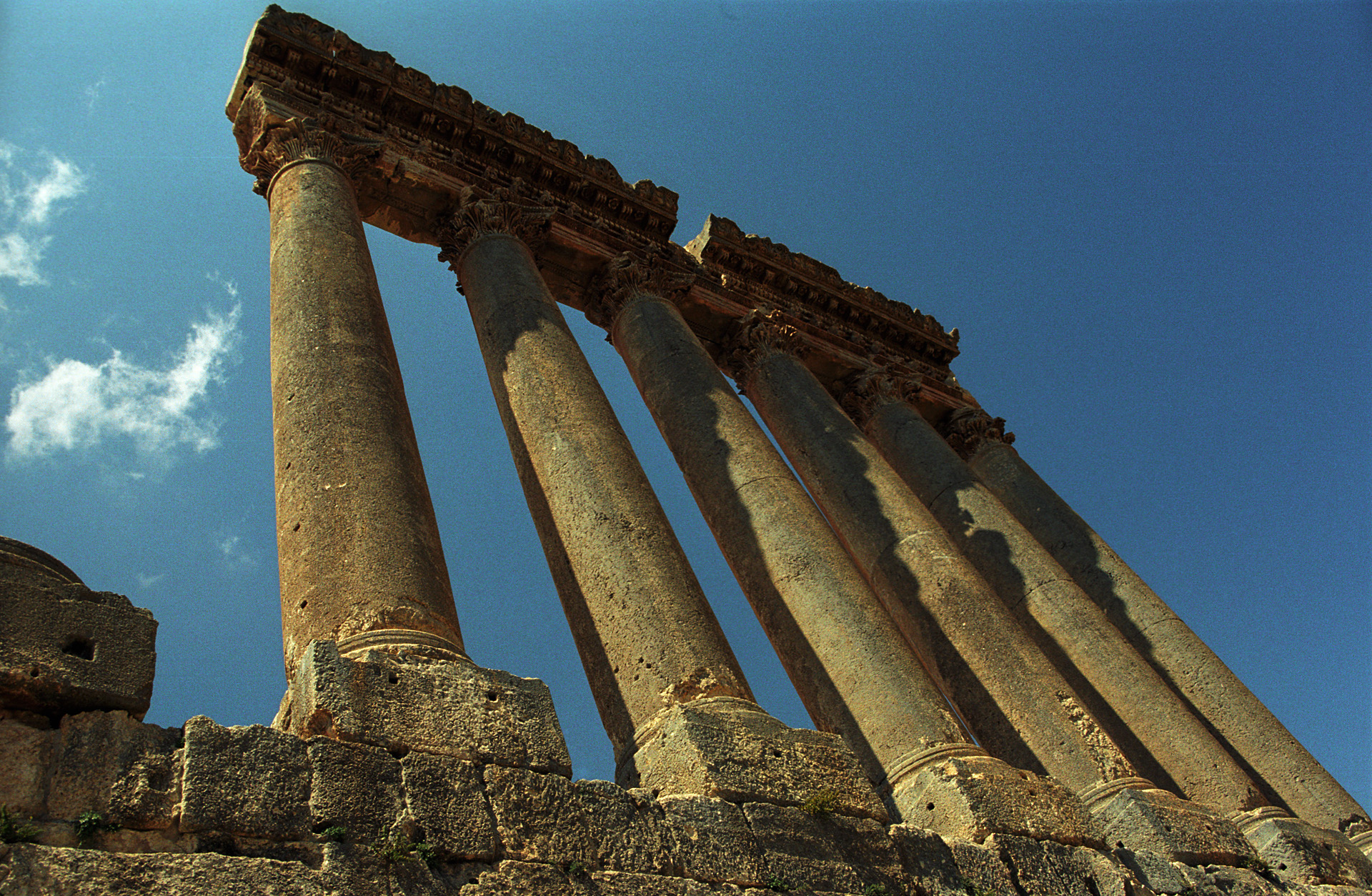 Baalbek, Temple of Jupiter